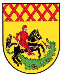 Coat of arms of Mannweiler-Cölln